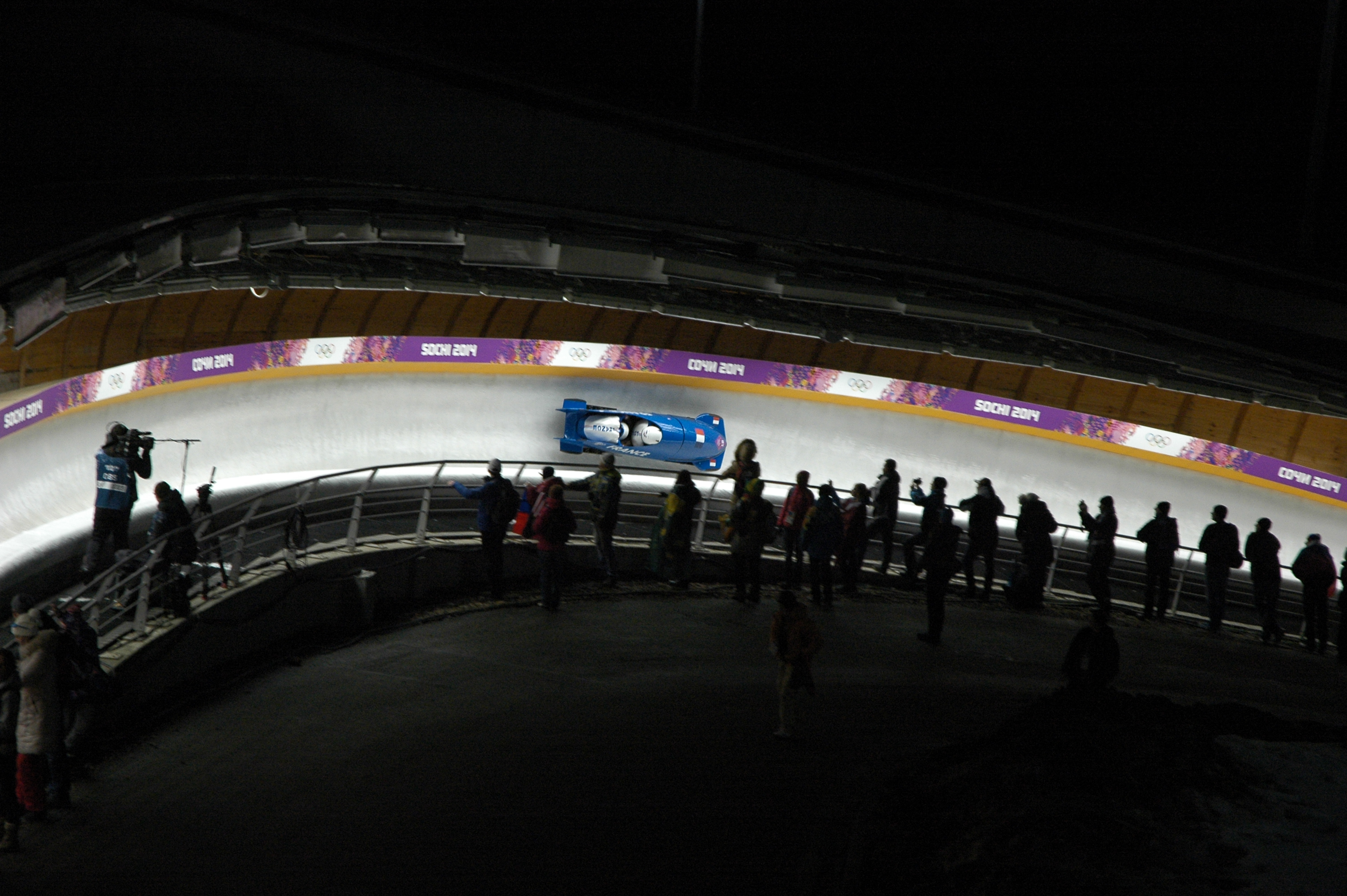 Two-man bobsleigh, 2014 Winter Olympics, France run 4